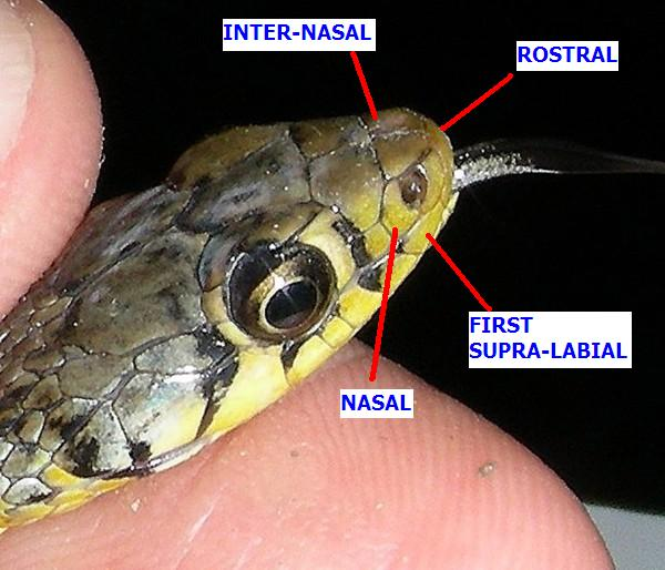 Buff-striped keelback, Amphiesma stolata, Family Colubridinae, Serpentes Second identification characteristic for Buff-striped Keelback snake. The rostral touches a total of 6 shields. These are two inter-nasals, two nasals and the first supralabial on each side. Image taken on 17 Jul 06 in Binnaguri, Duars, northern West Bengal, India by AshLin. Self-work. CC2.5-Self work, attribution required. AshLin 12:08, 23 July 2006 (UTC)